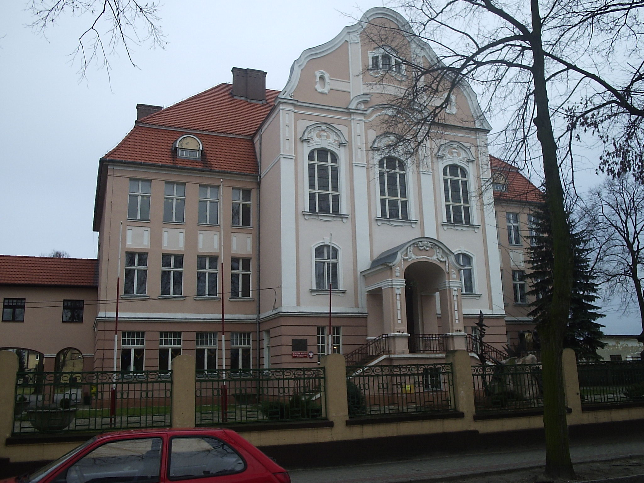 Bojanowo, Poland